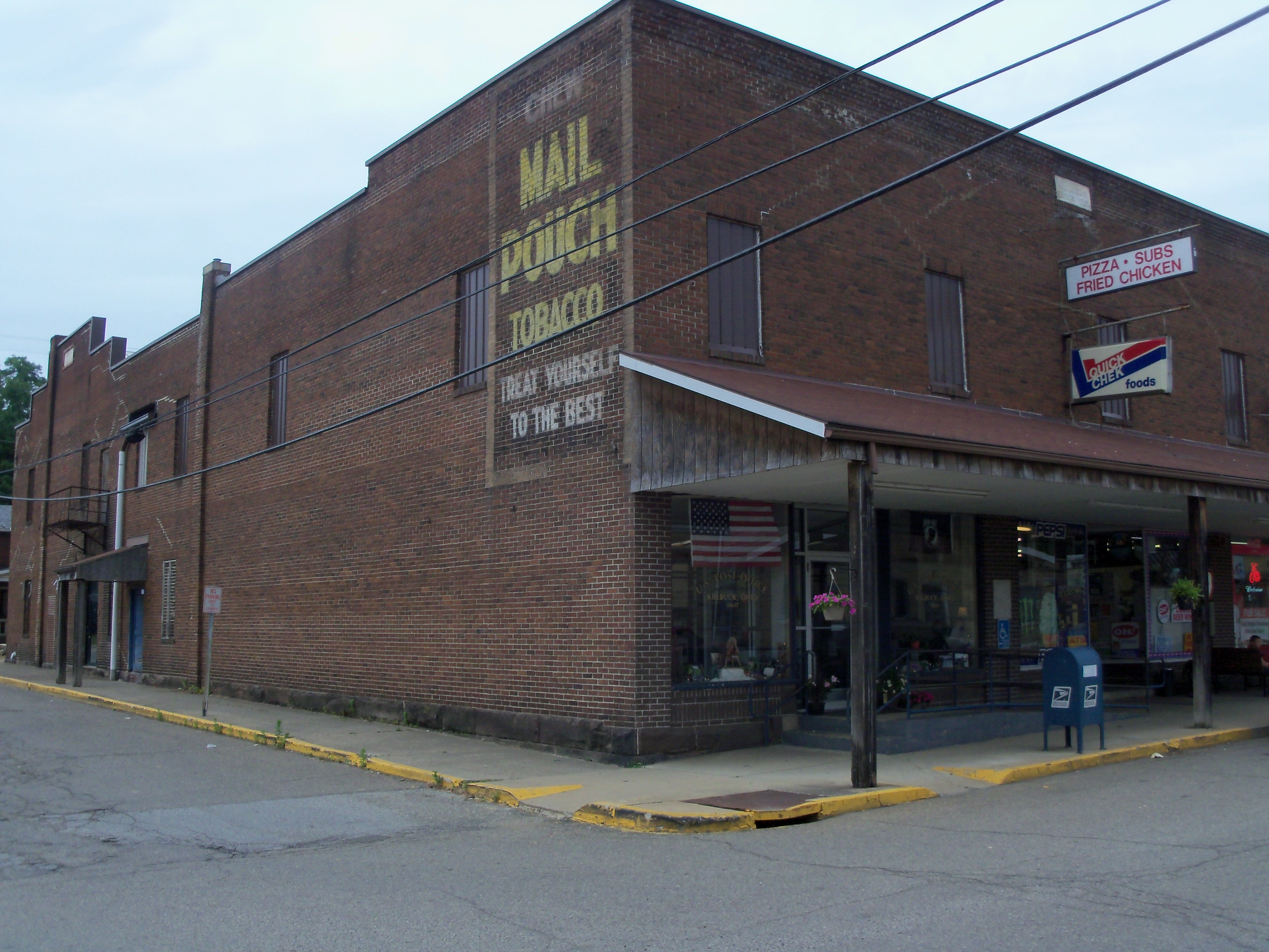 Killbuck, Ohio Post Office occupies the corner of this buiding.